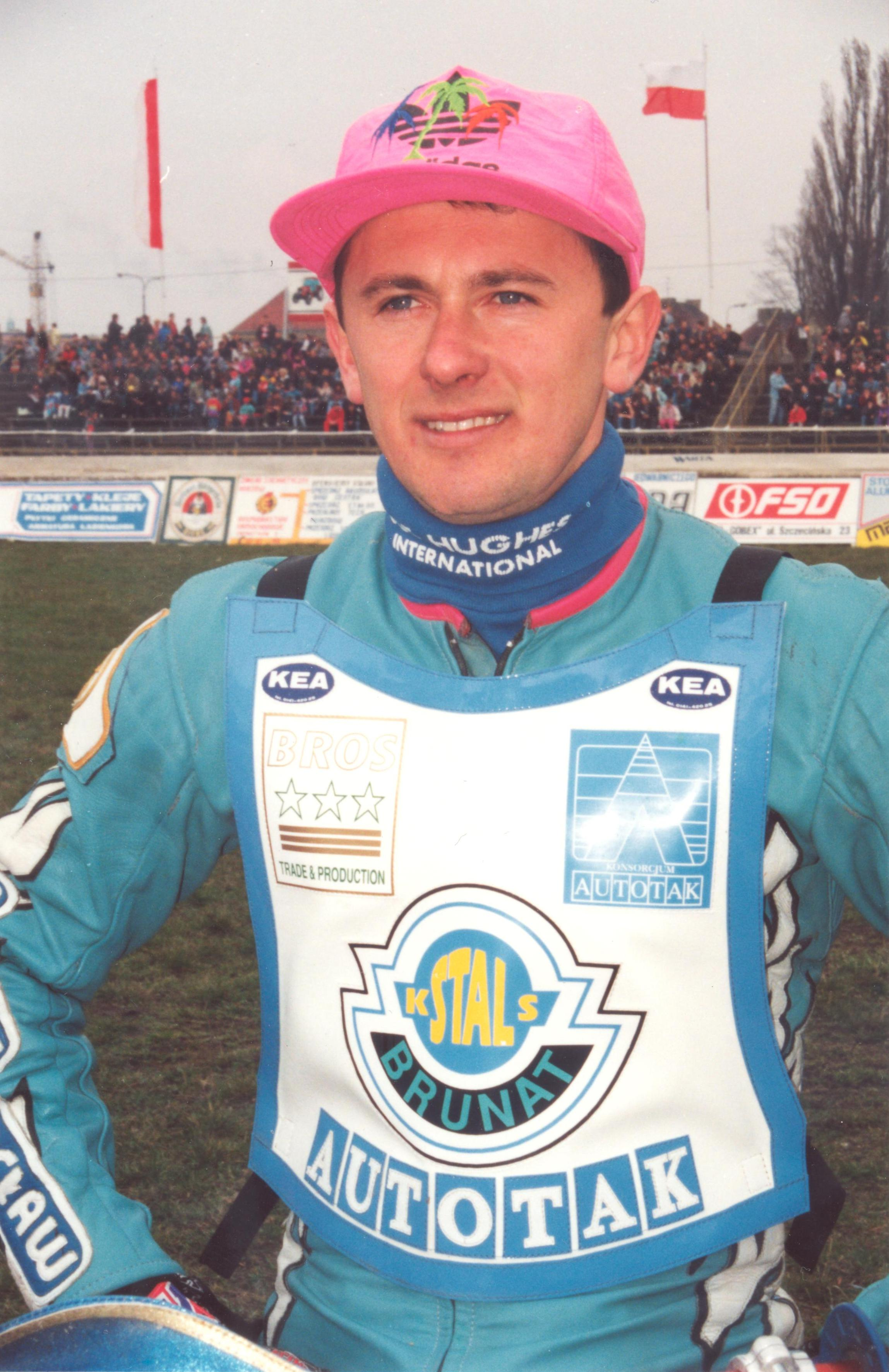 Piotr Świst - polish speedway rider.